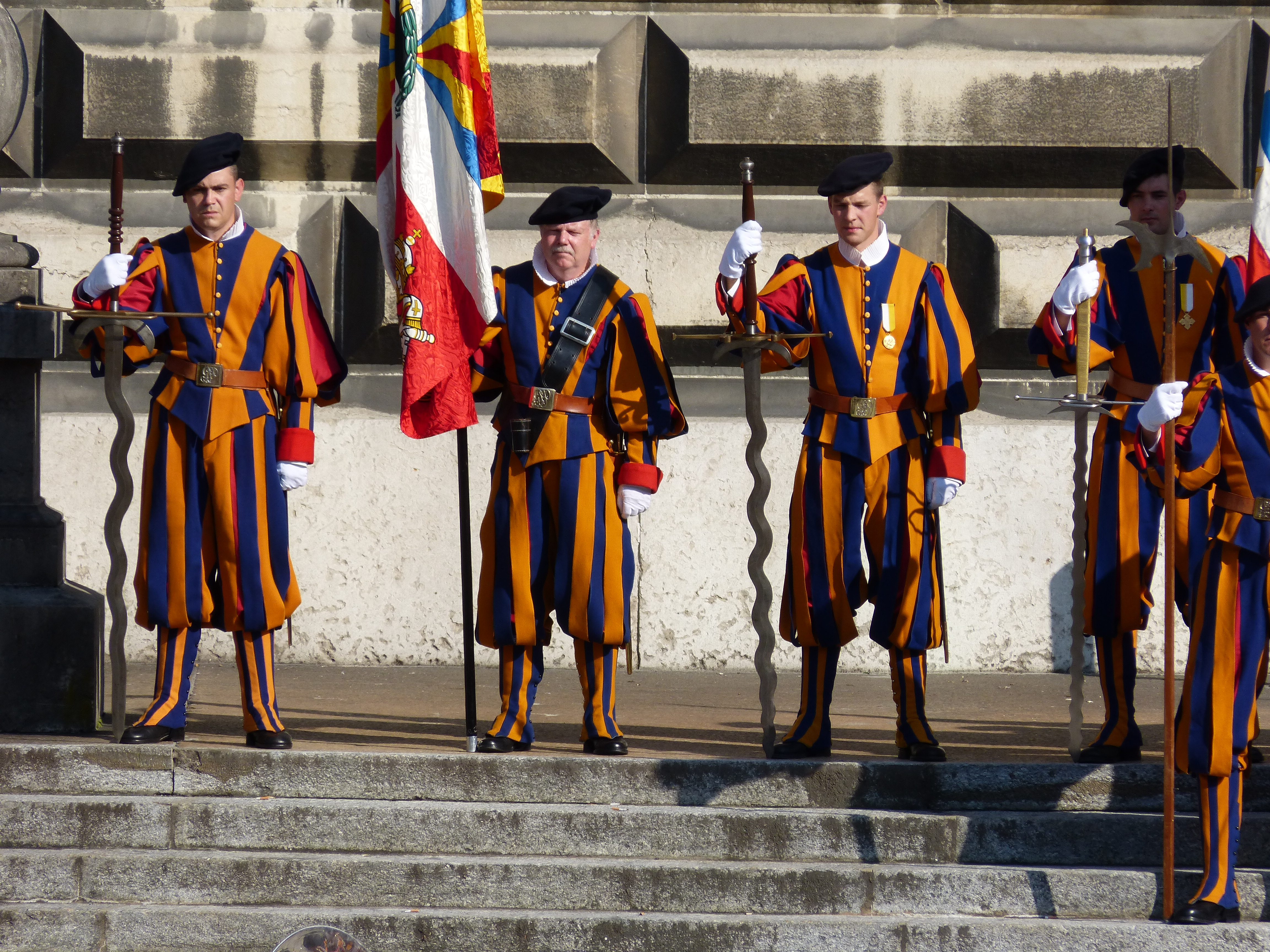 Standard bearer and flame-bladed swords former members of the Pontifical Swiss Guard on the stairs of the forecourt of Palais de Rumine.